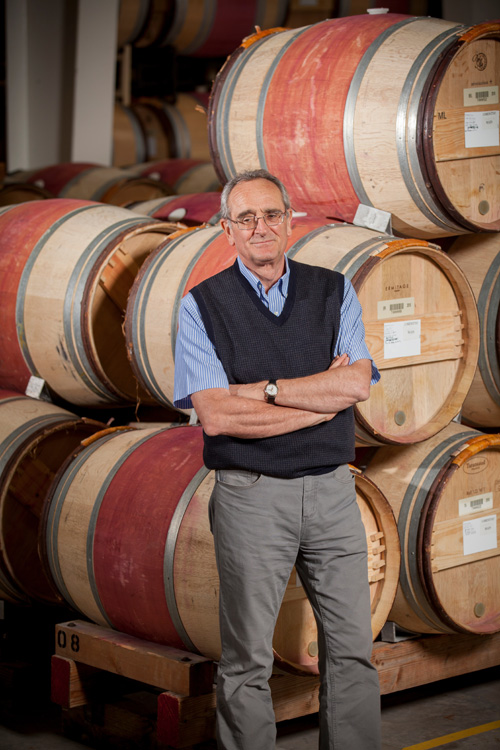 French winemaker Jean-Claude Berrouet.